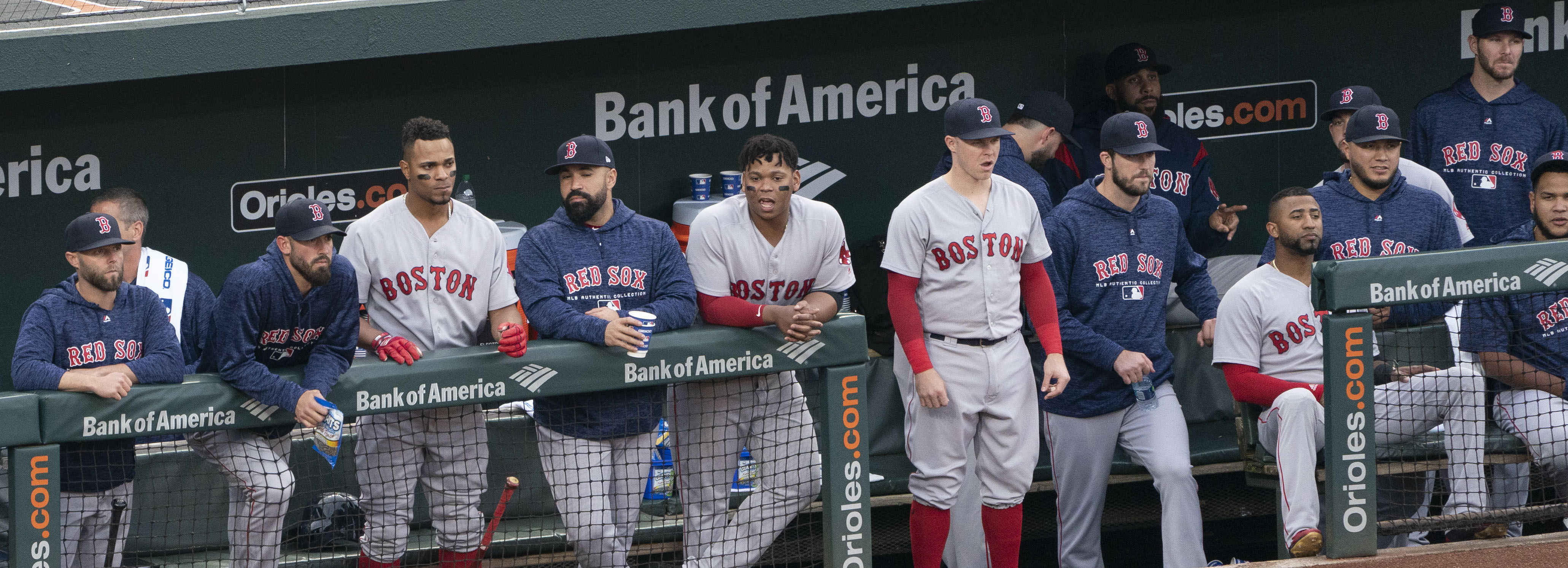 Red Sox at Orioles 6/11/18